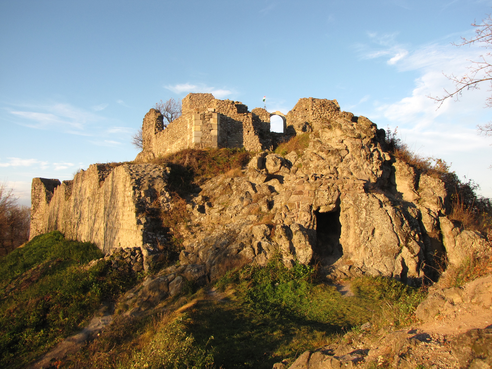 Ruins of Drégely Castle, Hungary This is a photo of a monument in Hungary. Identifier: 6574